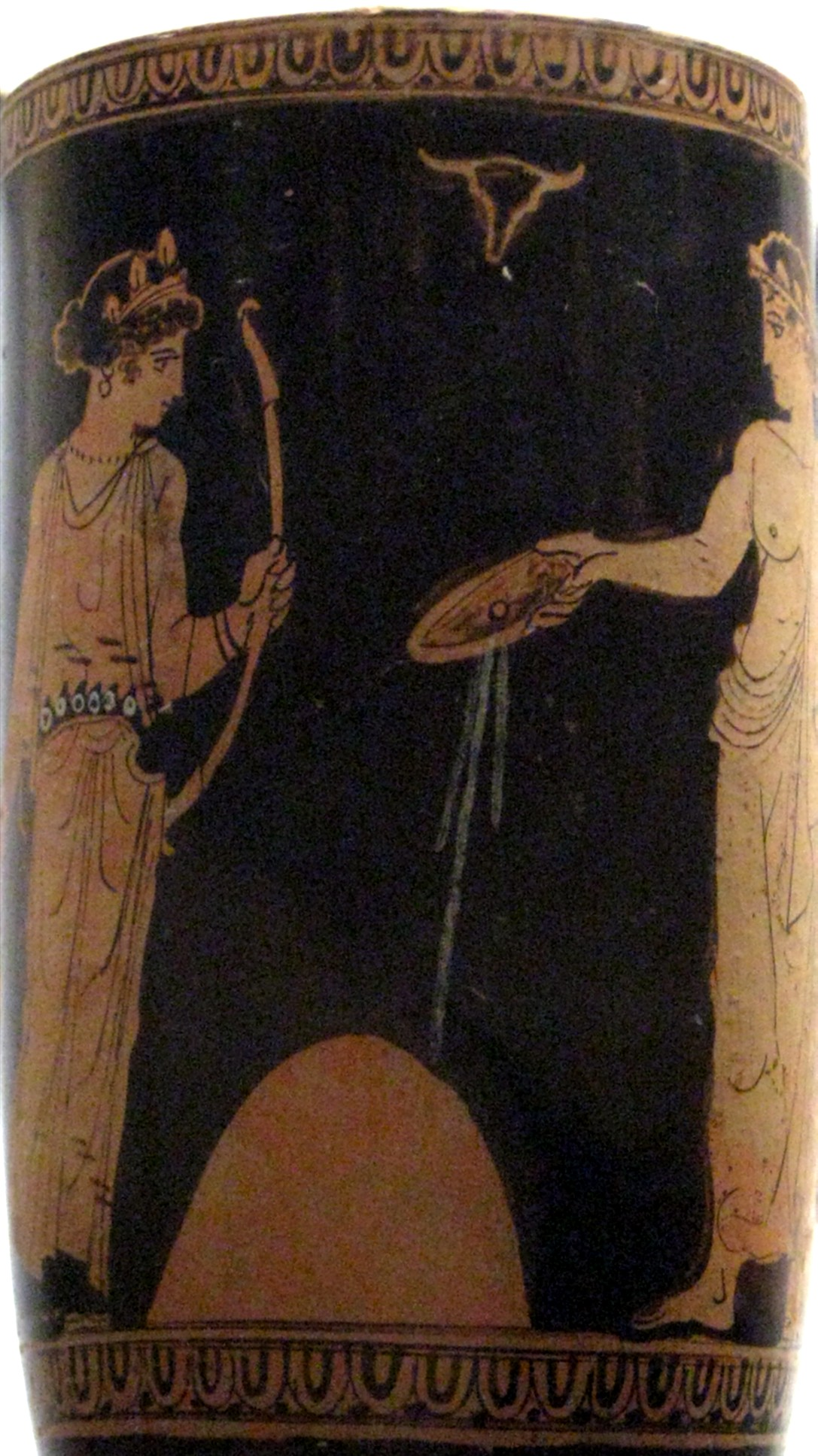 Libation of Artemis and Apollo at omphalos. Red-figure lekythos by the Shuvalov Painter (?), ca. 440 BC.